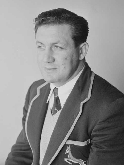 J A J Pickard, lock, Springbok rugby team during tour of New Zealand